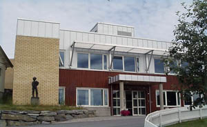 Inderøyheimen, health house, Inderøy, Norway